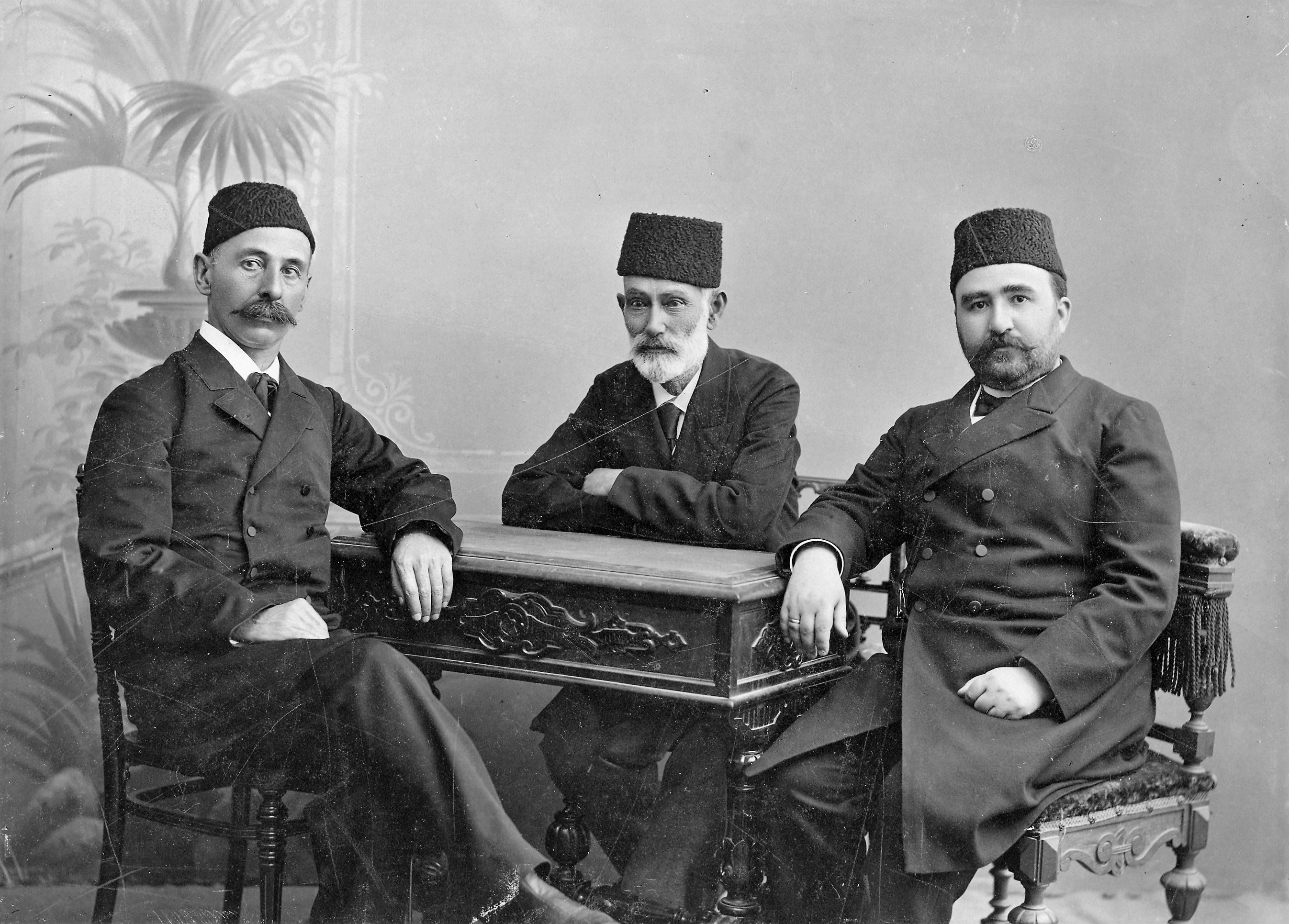 Ismail Gasprinski, Hasan bey Zardabi and Alimardan bey Topchubashov. 1903, Baku.